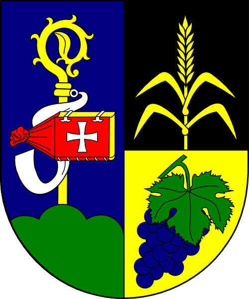 Coat of arms (shield only) of Ernest Hauswirth, abbot of Schottenstift (Scottish Abbey), Vienna (1881 - 1901).